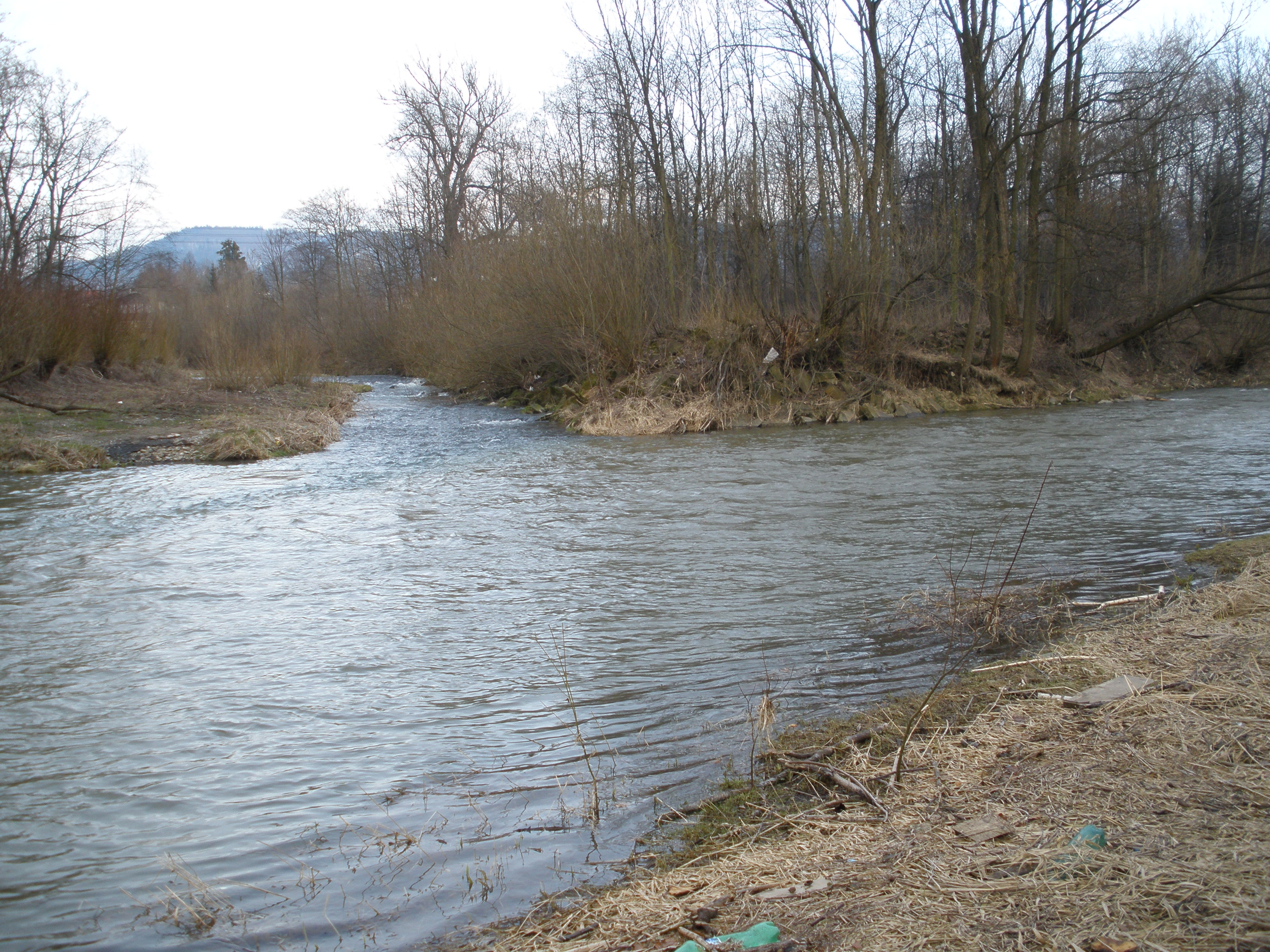 Confluence of rivers Hluchová and Olza